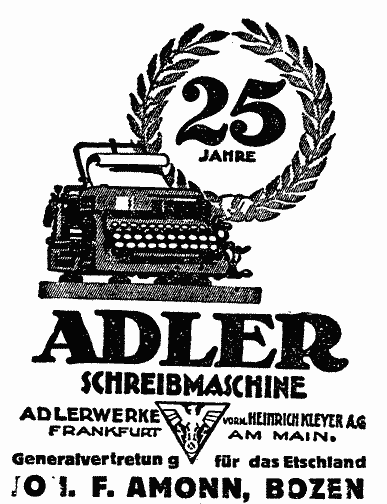 A 1925 advertisement for Adler typewriters